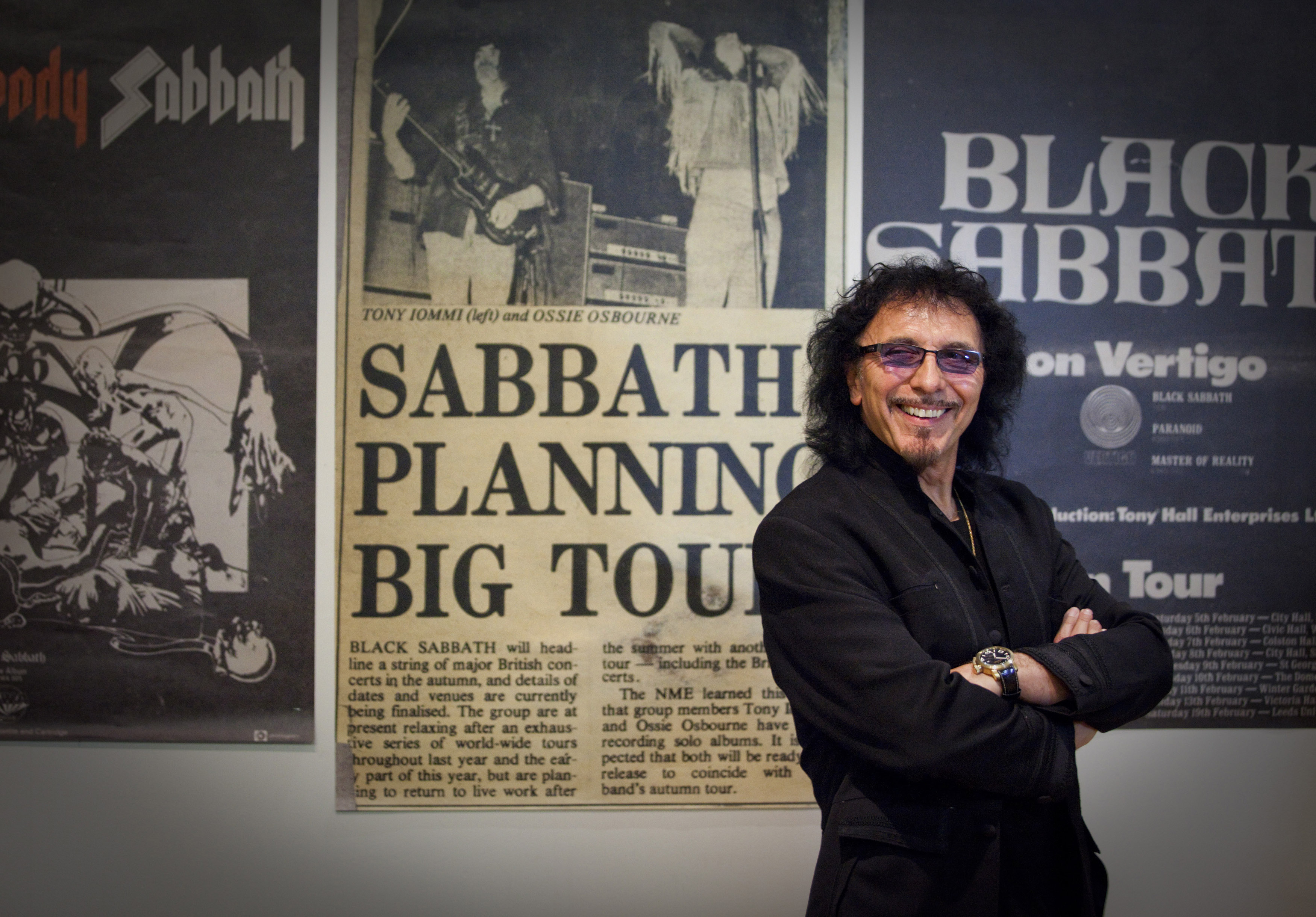 Black Sabbath's Tony Iommi in front of newspaper cuttings and posters from the band's early days at the opening night of the Home Of Metal exhibition at Birmingham Museum & Art Gallery. The show charts the birth and rise of Heavy Metal music in Birmingham. Informed by original band artefacts and materials from the Home of Metal digital archive, this exhibition brings together iconic items such as Black Sabbath’s Mob Rules stage cross, Judas Priest costumes and handwritten Napalm Death lyrics and places them alongside unseen memorabilia sourced directly from the fans. The show will also explore the ingredients that together made Heavy Metal, offering an insight into the region’s industrial history, the early blues-rock sound, the changing music industry, DIY politics as well as Heavy Metal’s global impact.